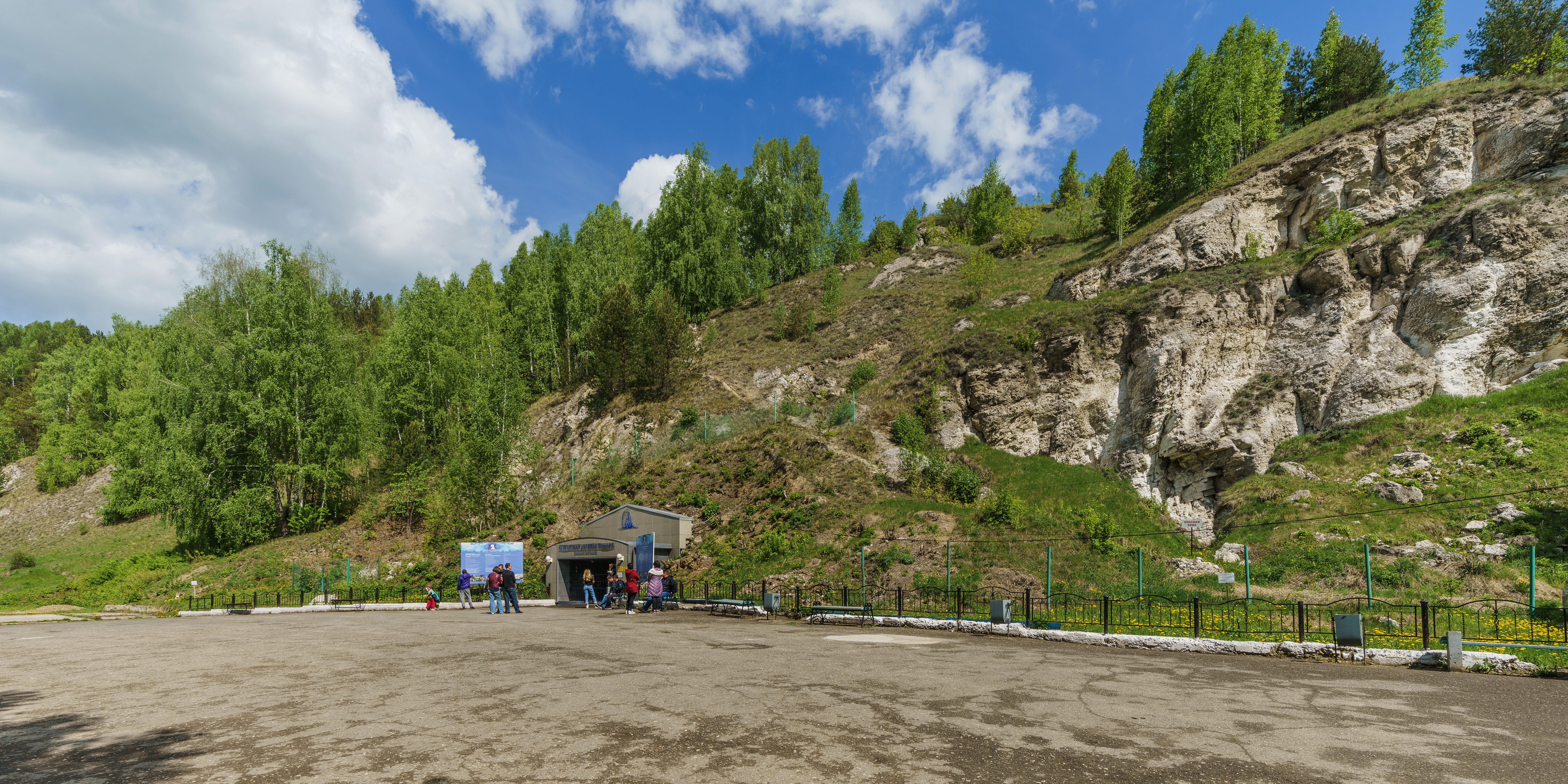 Ice Hill and visitor's entrance of the Ice Cave in Kungur, Perm Krai, Russia